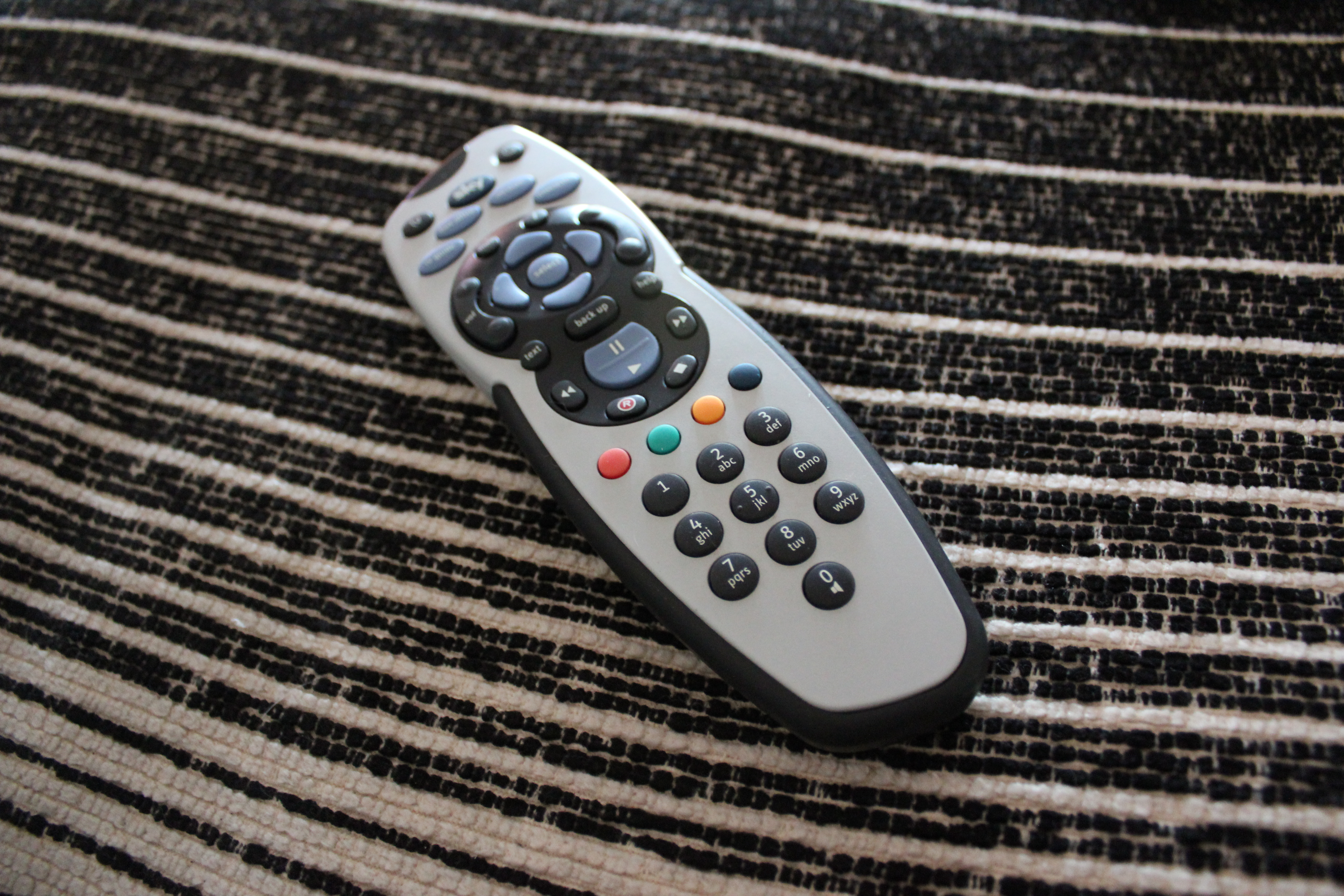 A remote control for the Sky+ satellite TV service in the United Kingdom.